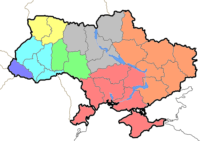 Map of roman-catholic dioceses in Ukraine